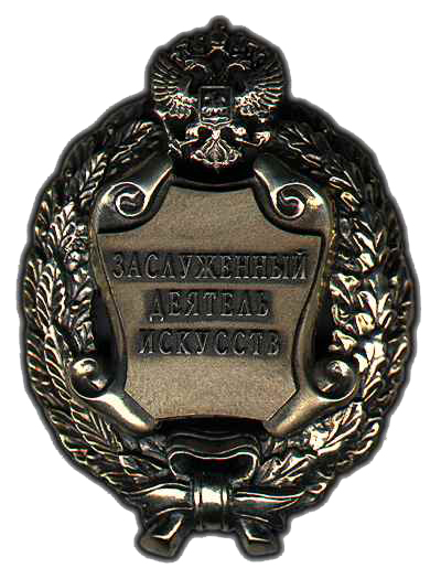 Honored Art Activist of the Russian Federation